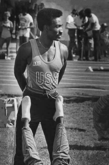 1980 Press Photo Auburn University star Harvey Glance helps teammate stretch